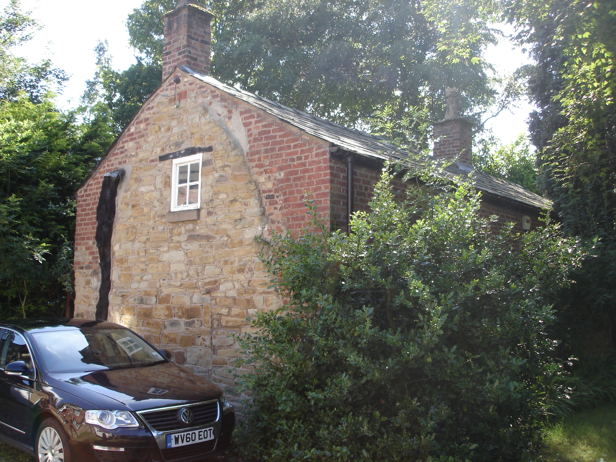 No 15, Firwood Fold, Bradshaw, Bolton. Grade II* listed building, believed to be oldest occupied house in Bolton.